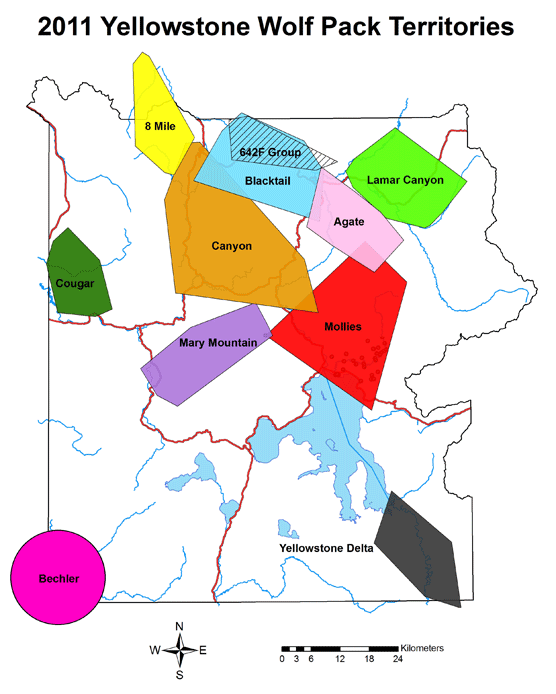 Map of territories claimed in 2011 by the 10 packs of wolves that lived in Yellowstone National Park in the United States in that year.